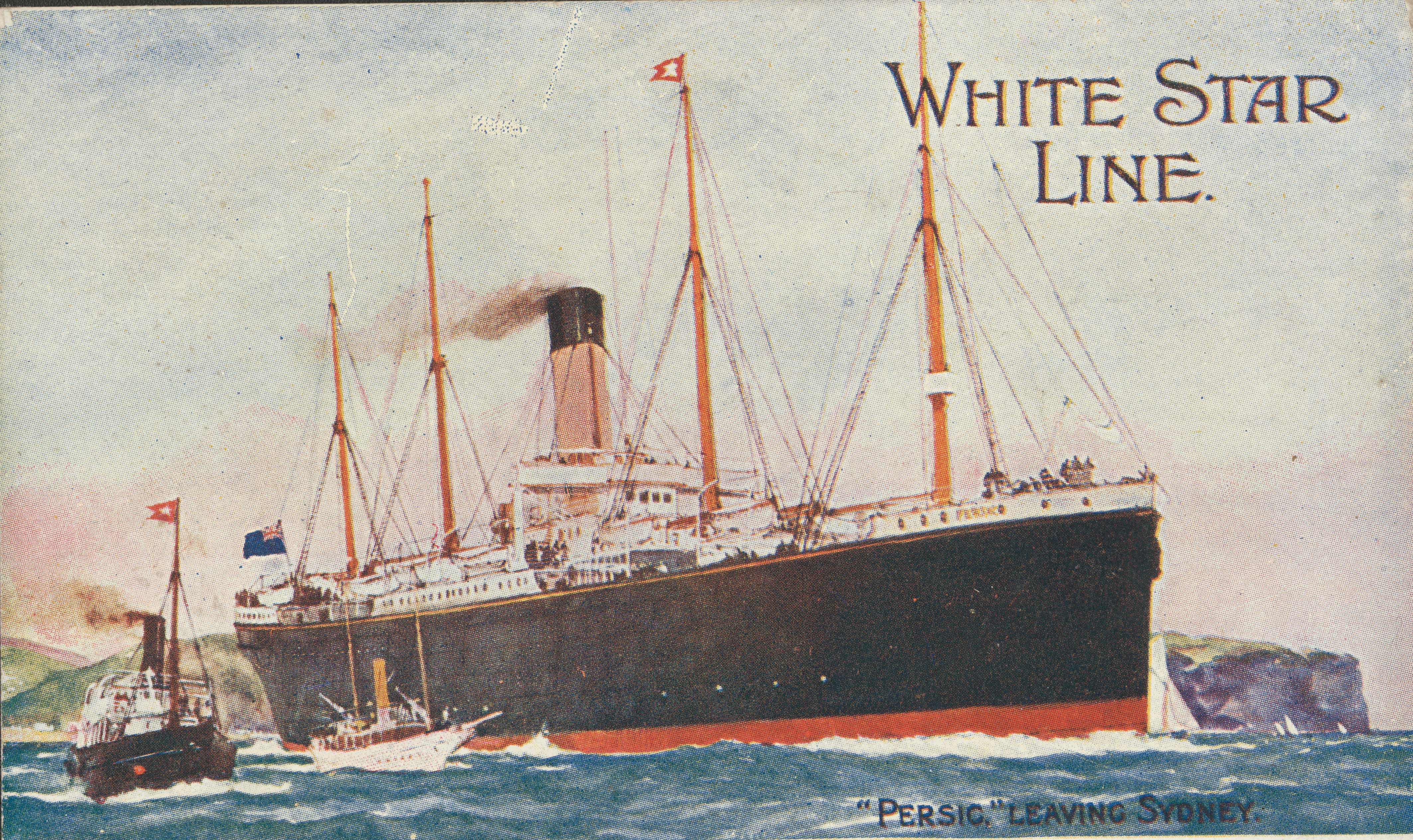 The steamship and White Star Liner Persic.